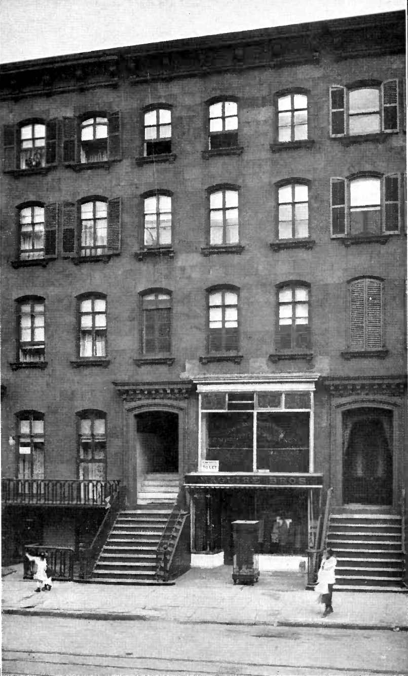 Photograph of the home of president of the United States Chester A. Arthur at 123 Lexington Avenue in New York City